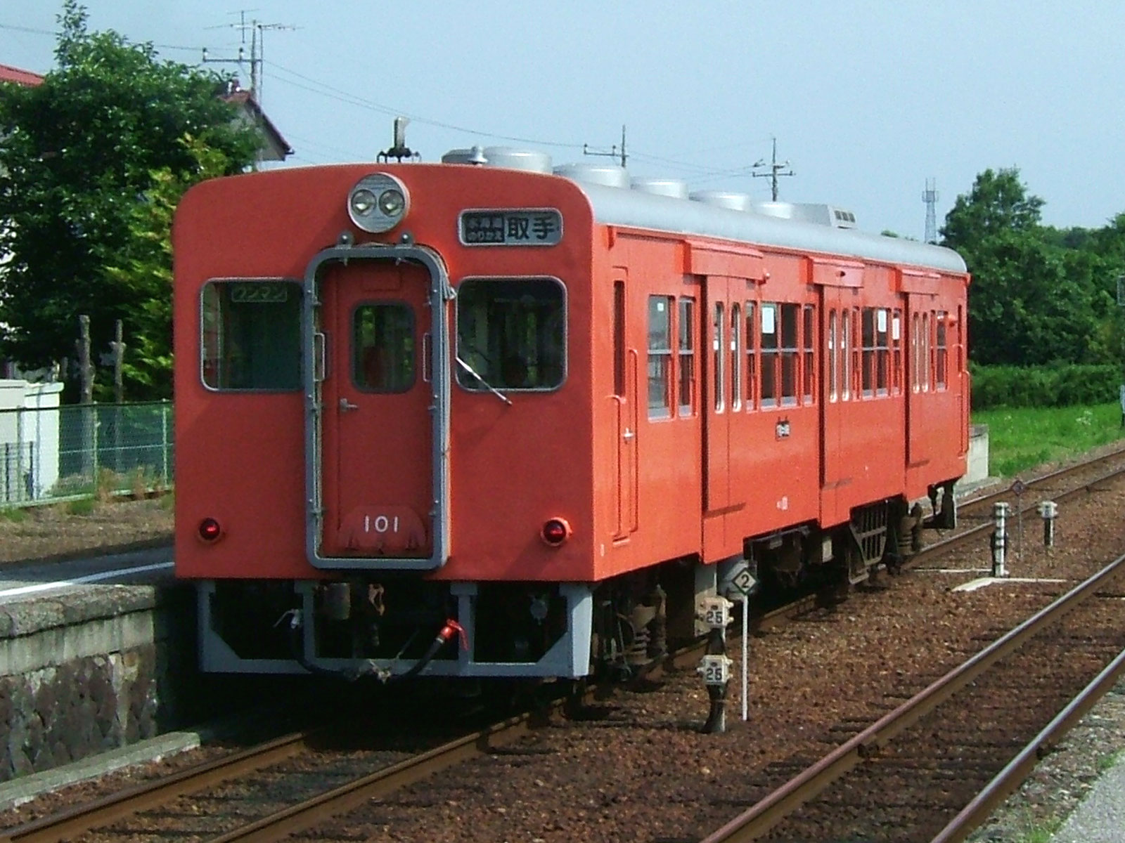 Kanto Railway Kiha300 series no. 101 train